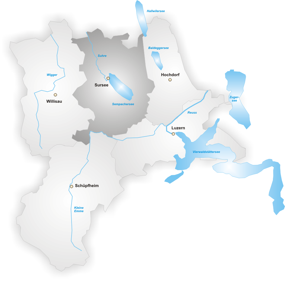 District Sursee